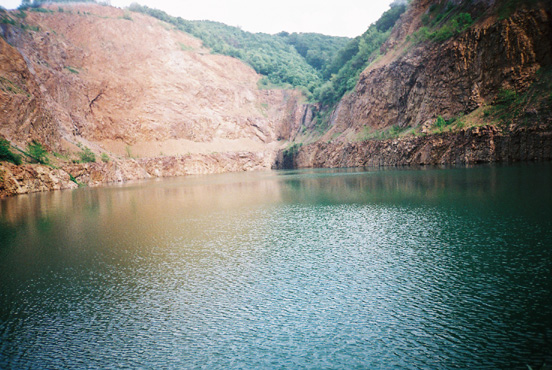 Image of the Lake Ledinci. (The author of the image agreed that user:PANONIAN release it into the public domain)